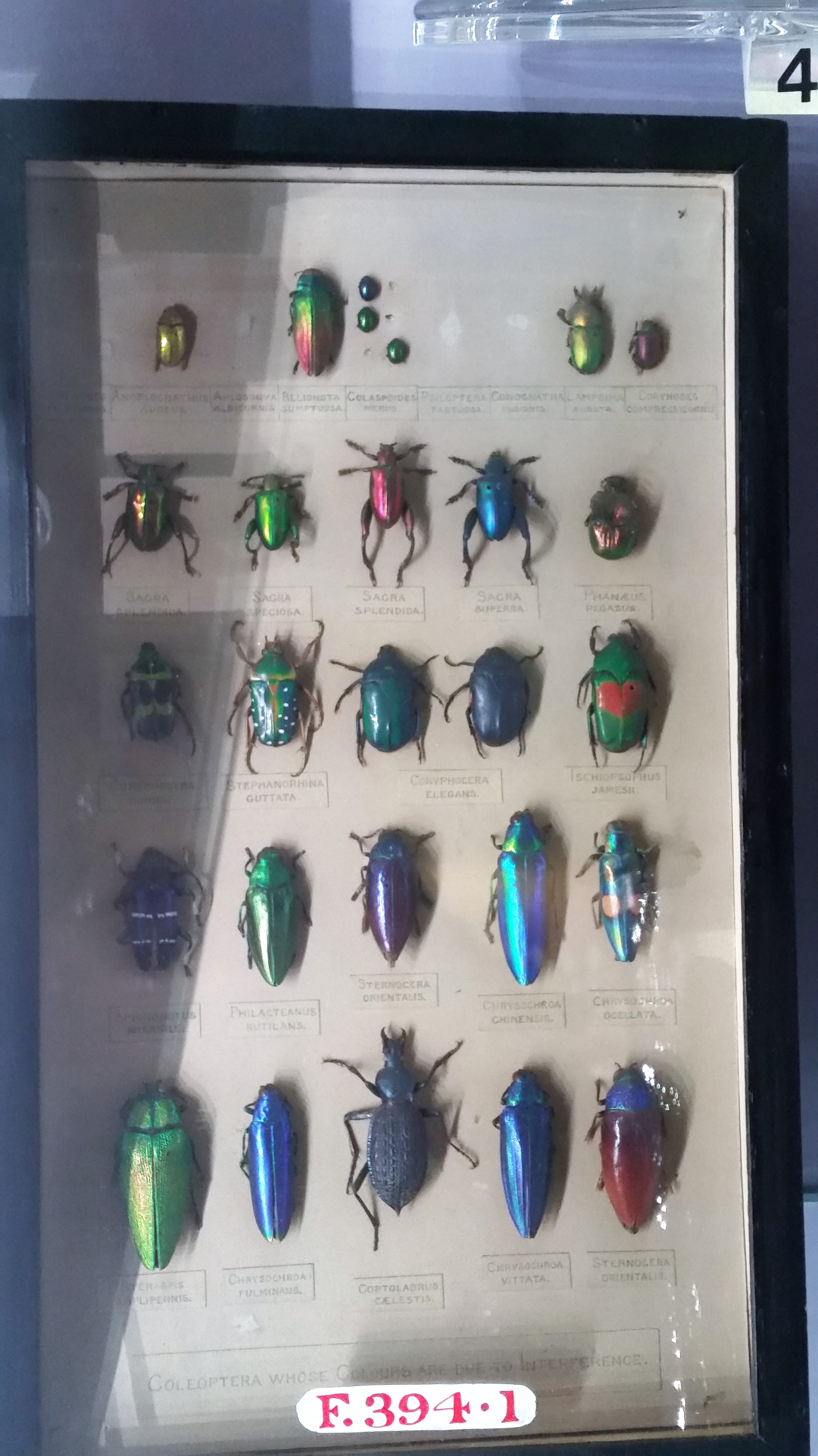 A series of iridescent beetles in the Hunterian Museum at the Royal College of Surgeons of England. These specimens were acquired by Charles Stewart in the 1890s. Some show bright iridescent colours. These result from the refraction of ligh rather than pigments in the tissues. Others are examples of protective colouration and mimicry to camouflage against predators. From left to right and from top to bottom (exception the upper line): Sagra splendida, Sagra femorata, Sagra splendida, Sagra superba, Phanaeus demon, unidentified, Stephanorrhina guttata, Coryphocera elegans, Schiopsophus jamesii, unidentified, Philacteanus rutilans, Sternocera sternicornis, Chrysochroa rajah, Chrysochroa ocellata, unidentified, Chrysochroa fulminans, Carabus lafossei, Chrysochroa vittata és Sternocera sternicornis.